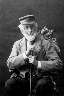 The doctor and geographer Manuel Uribe Ángel, associate of the San Vicente de Paúl society portrayed in 1889.